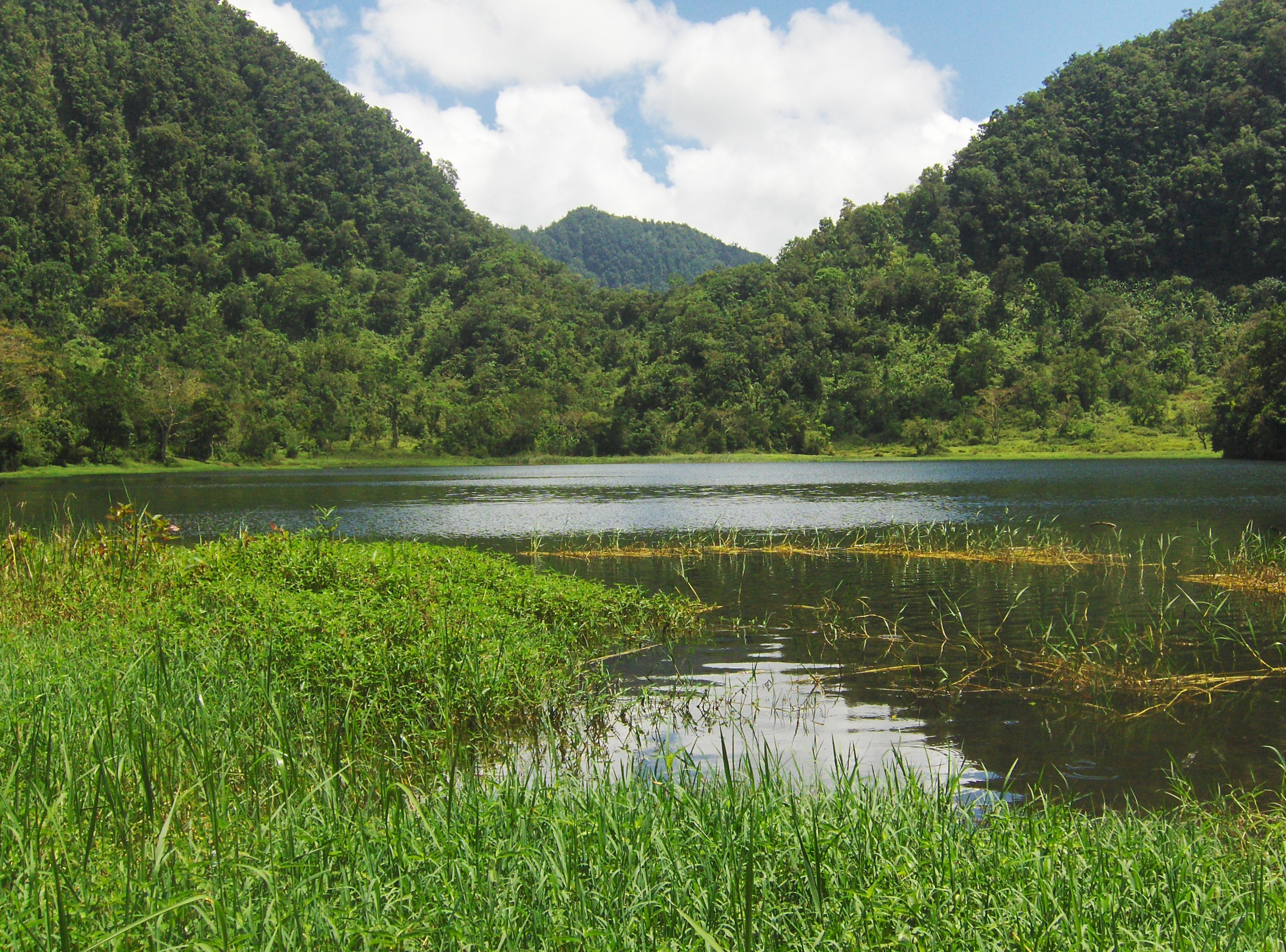 Lake Dzialandze, Anjouan, Comores